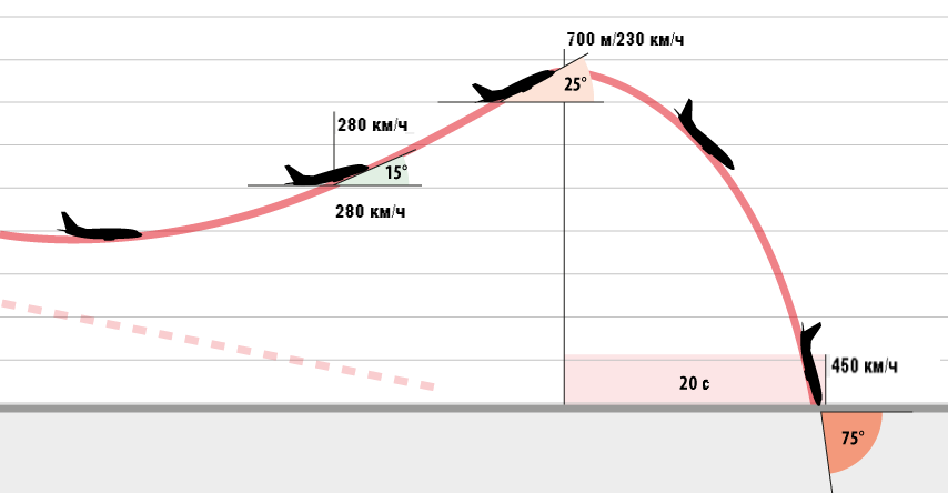 Tatarstan Airlines (Russian Federation) Boeing 737-500 crash scheme (2013)